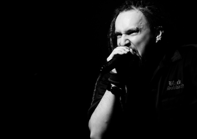 Rafał Piotrowski of Decapitated Polish death metal band, Kraków, Loch Ness, 14.10.2010